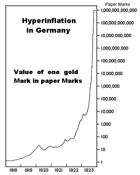 Value of one gold Mark in paper Marks.